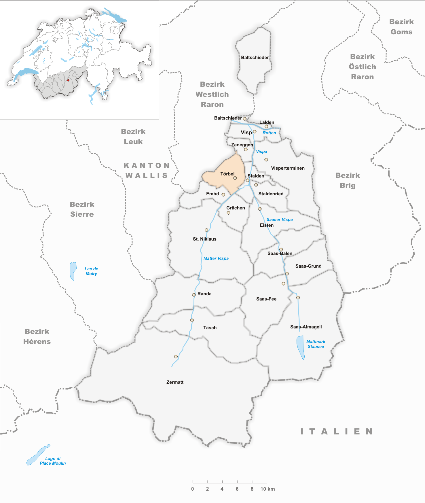 Municipality Törbel